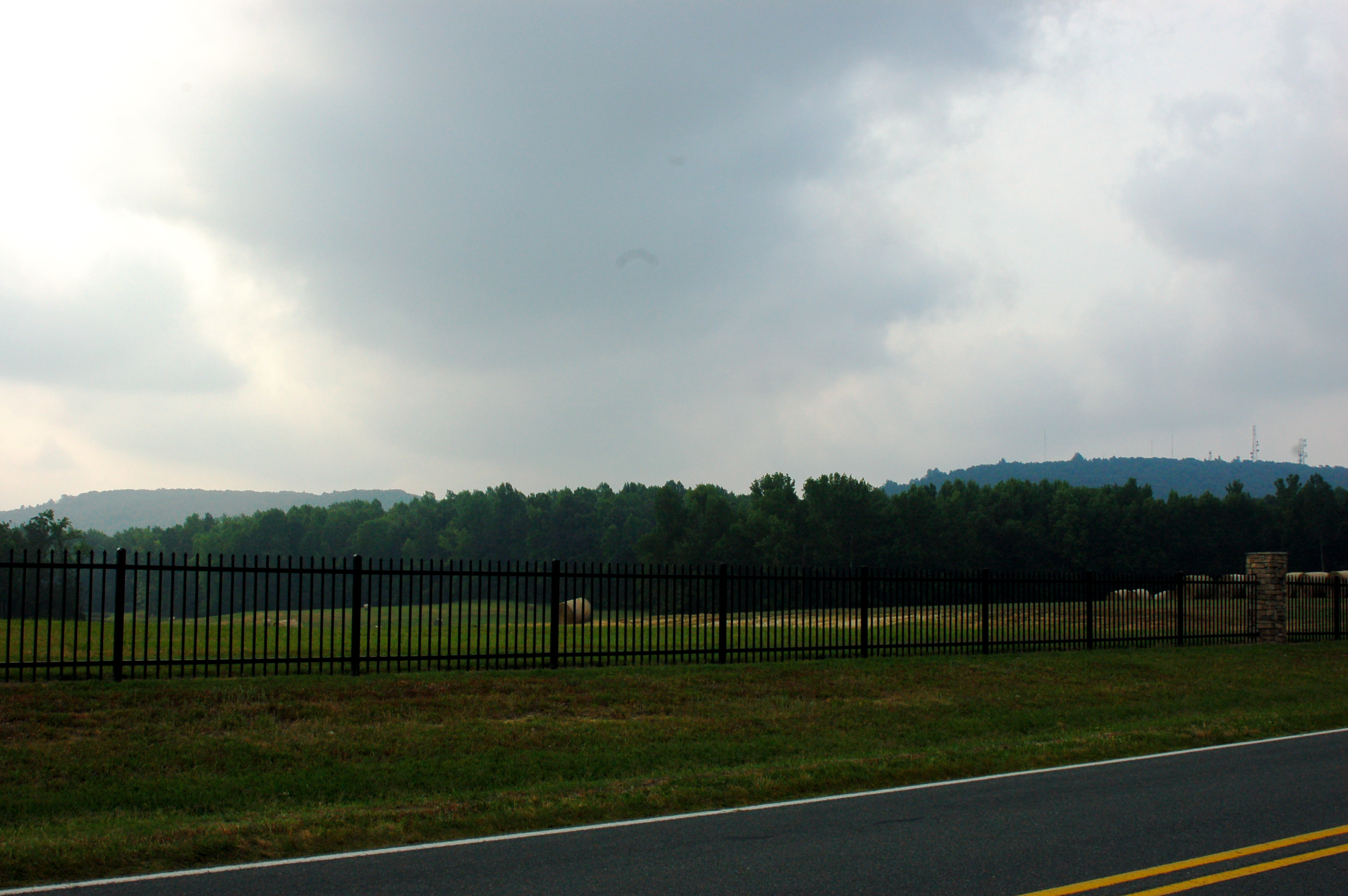 Picture of Cane Creek and Bass Mountains, located in southern Alamance County, North Carolina, USA.